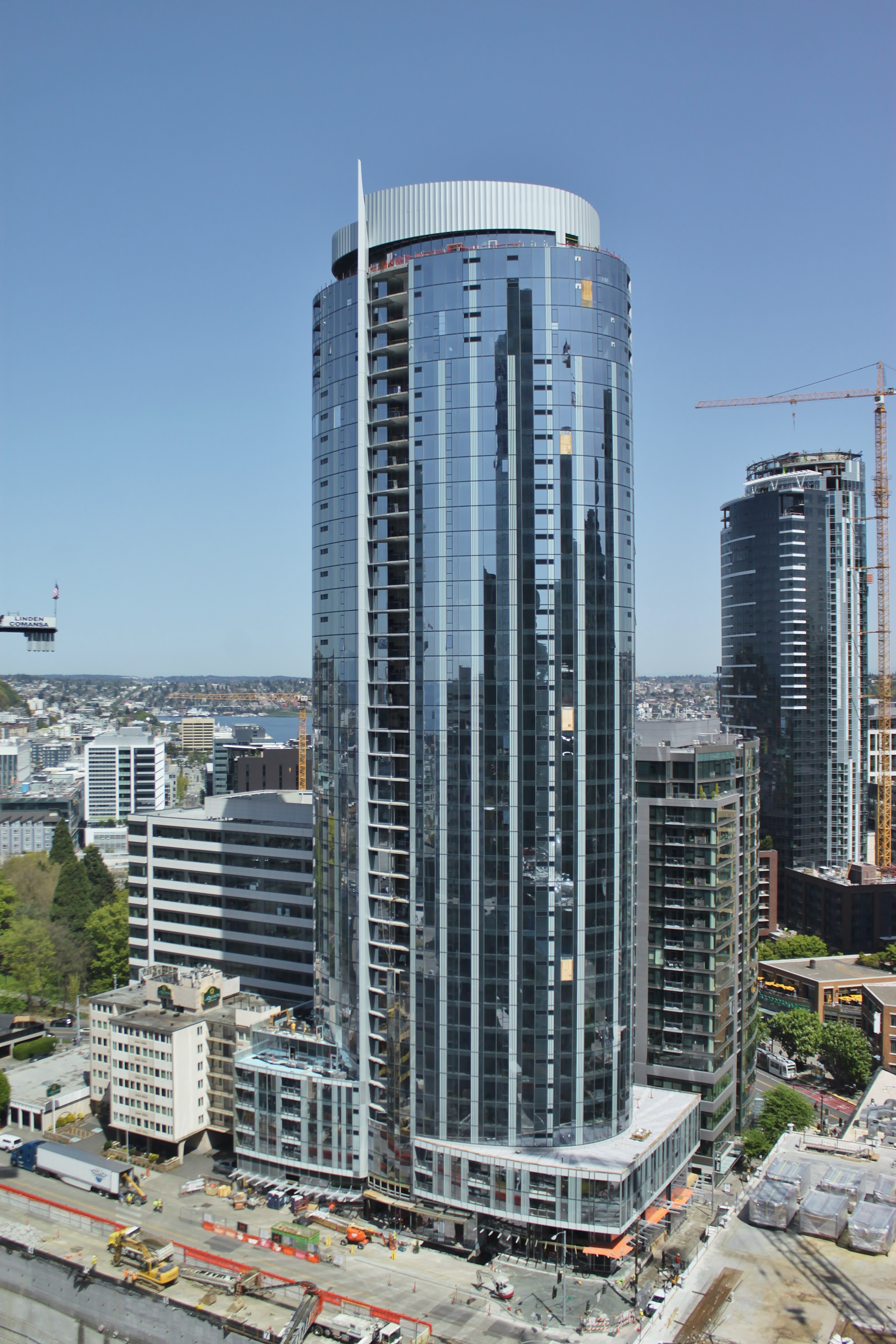 The under construction McKenzie Apartments building in Seattle, Washington, seen from Day One on the Amazon campus.